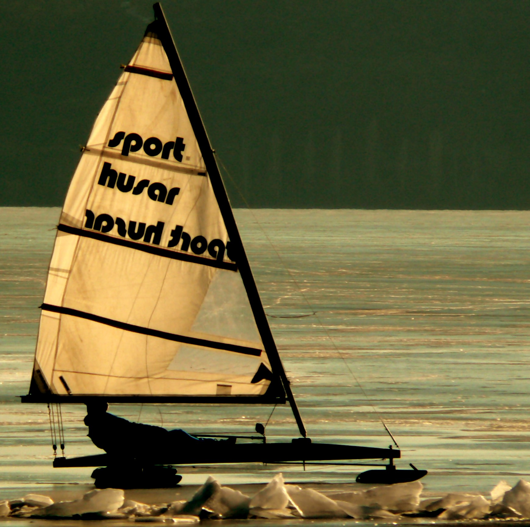 An iceboat on Lake Balaton (Hungary, Europe)